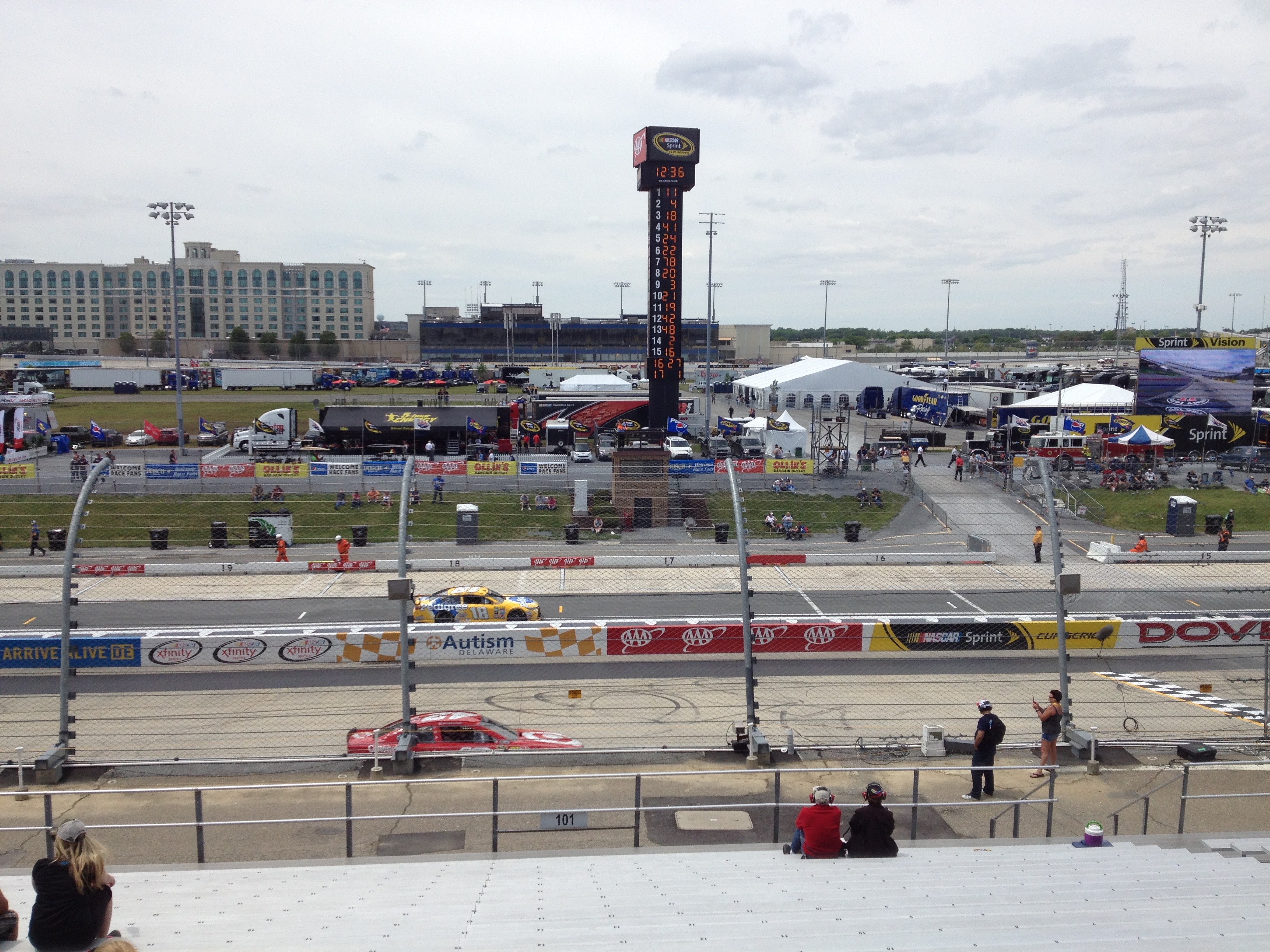 Final practice for the 2016 AAA 400 Drive for Autism at Dover International Speedway viewed front the frontstretch. Kyle Busch (#18) drives by on pit road and Kyle Larson (#42) drives by on the track.